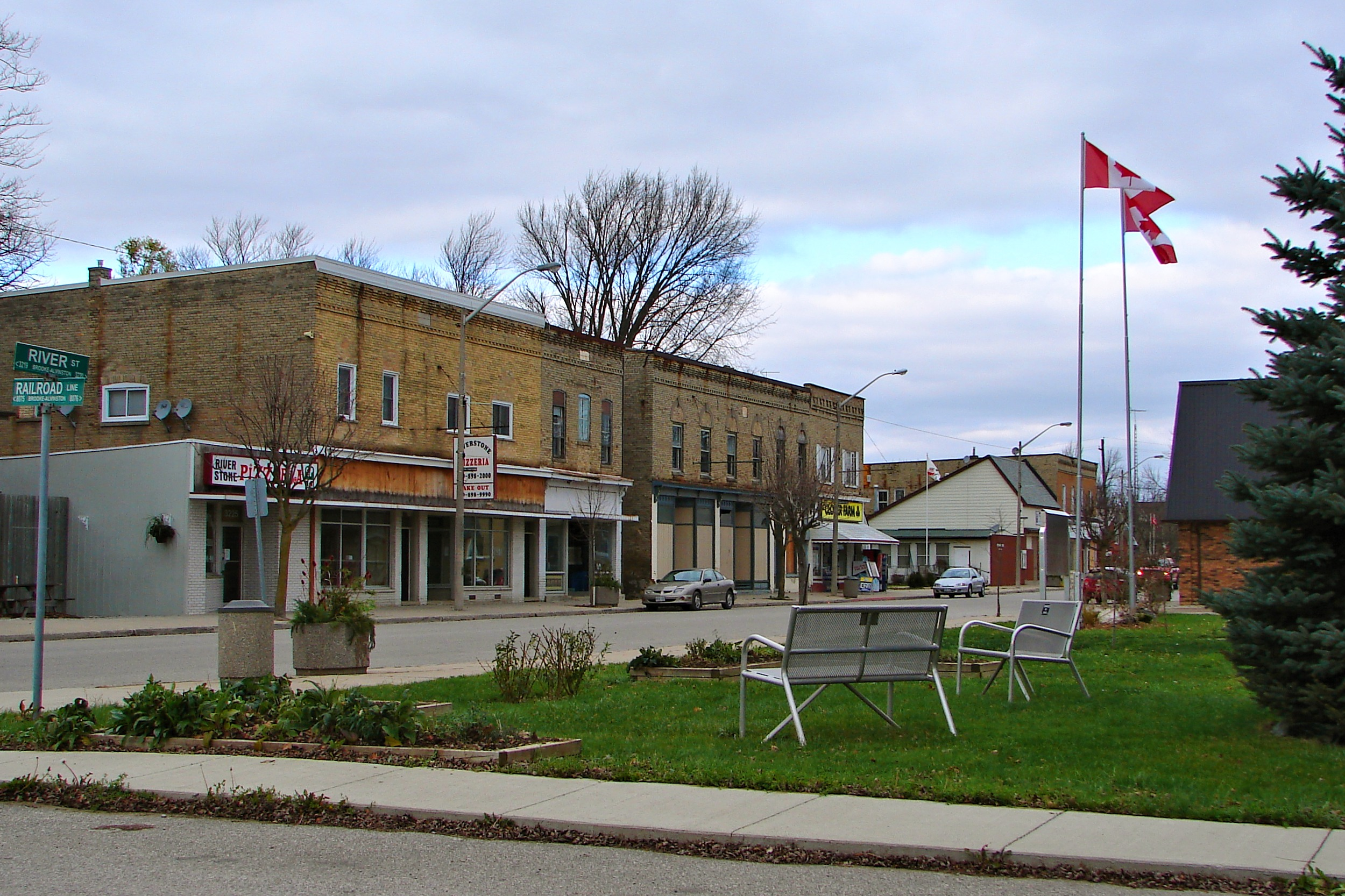 Alvinston (Brooke-Alvinston Township), Ontario, Canada